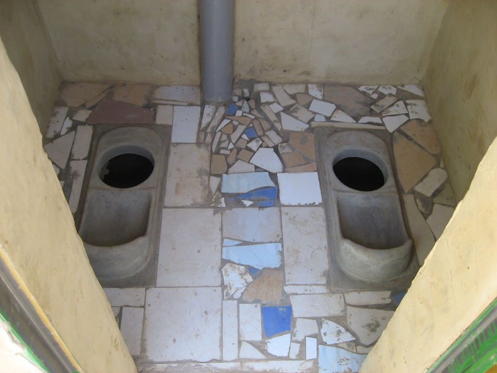 Inside of the UDDT